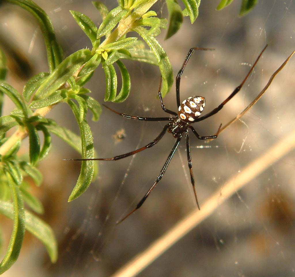 Black widow spider, young male, Europe, Croatia, photo by K. Korlevic (Korlević)